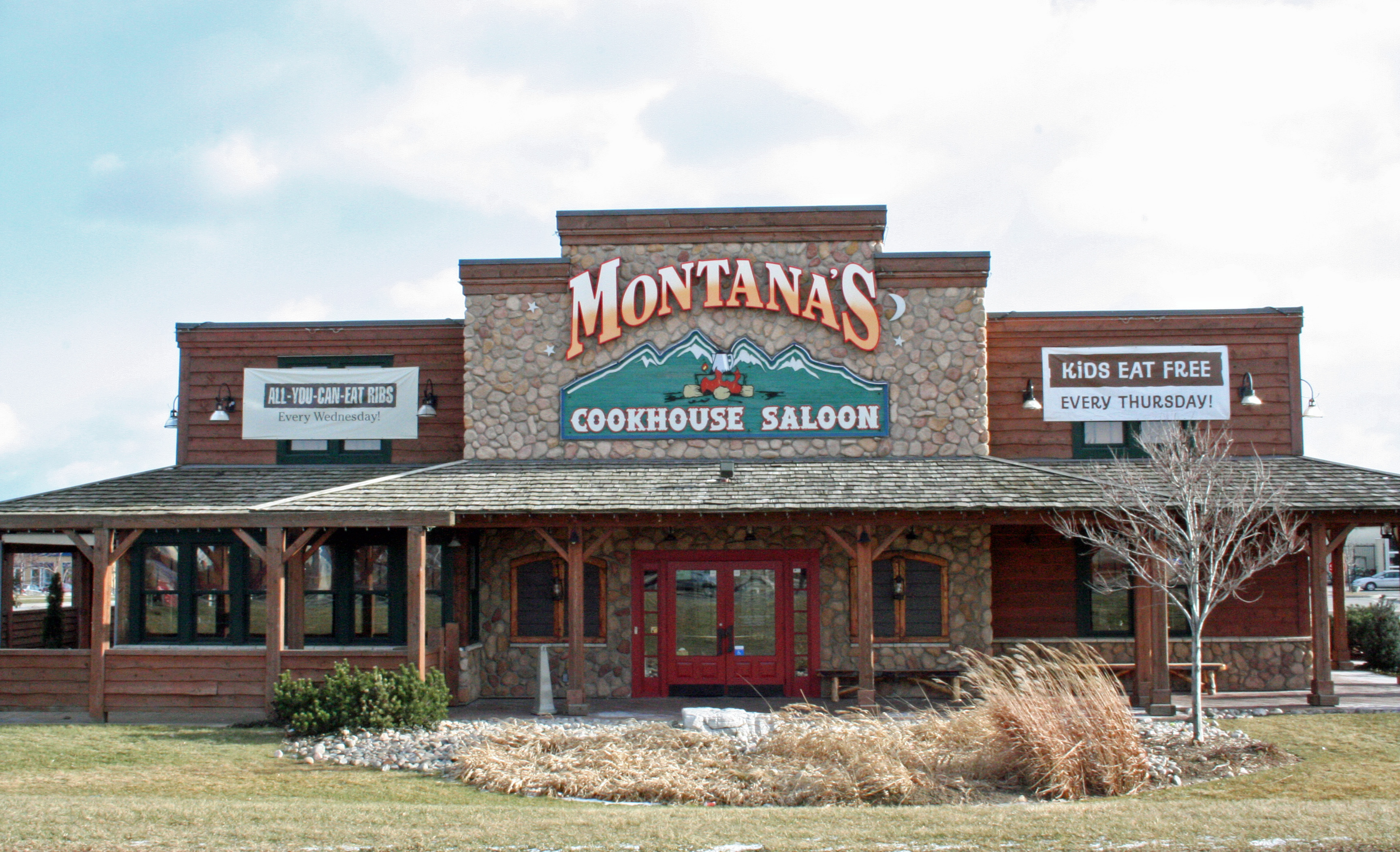 Montana's Cookhouse Saloon